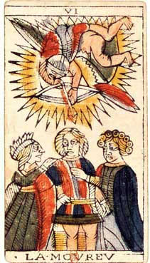 An original card from the tarot deck of Jean Dodal of Lyon, a classic Tarot of Marseilles deck which dates from 1701-1715.